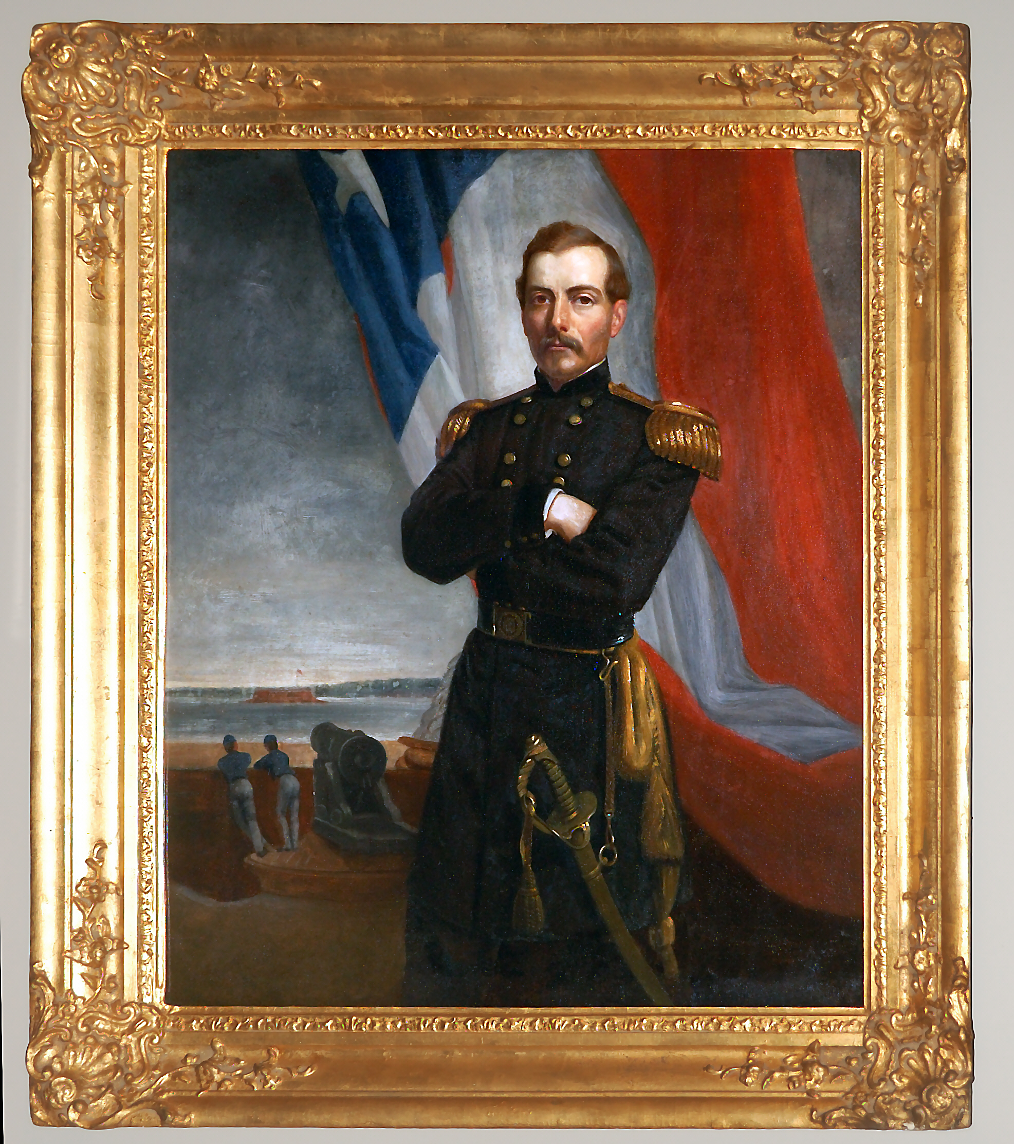 Lt. Pierre Toutant Gustave Beauregard, ca. 1845-1846. Attributed to Alexander Charles Jaume (French 1813-1858), Presbytère, Louisiana State Museum. Note: One of the most notable Louisianians to serve in the Civil War was P. G. T. Beauregard, a graduate of West Point and the Confederacy's first brigadier general. As commander of the Confederate forces at Charleston, S. C., Beauregard ordered the bombardment of Fort Sumter on April 12, 1861, firing the first shot of the Civil War. Like many Civil War troops and officers, Beauregard received his early combat experience in the Mexican War of 1846-1848.